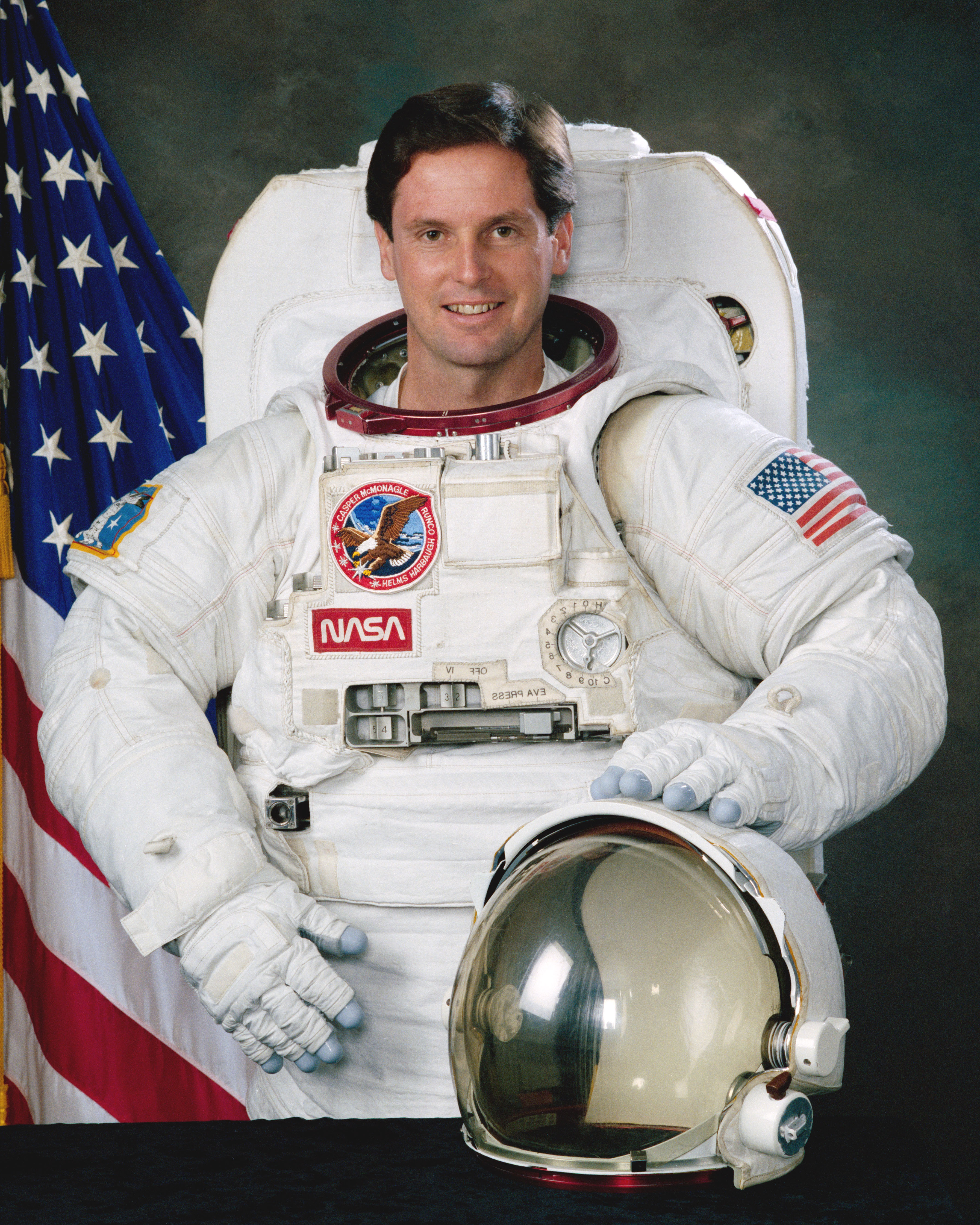 Portrait of former NASA astronaut Gregory J. Harbaugh. NASA photo in public domain.